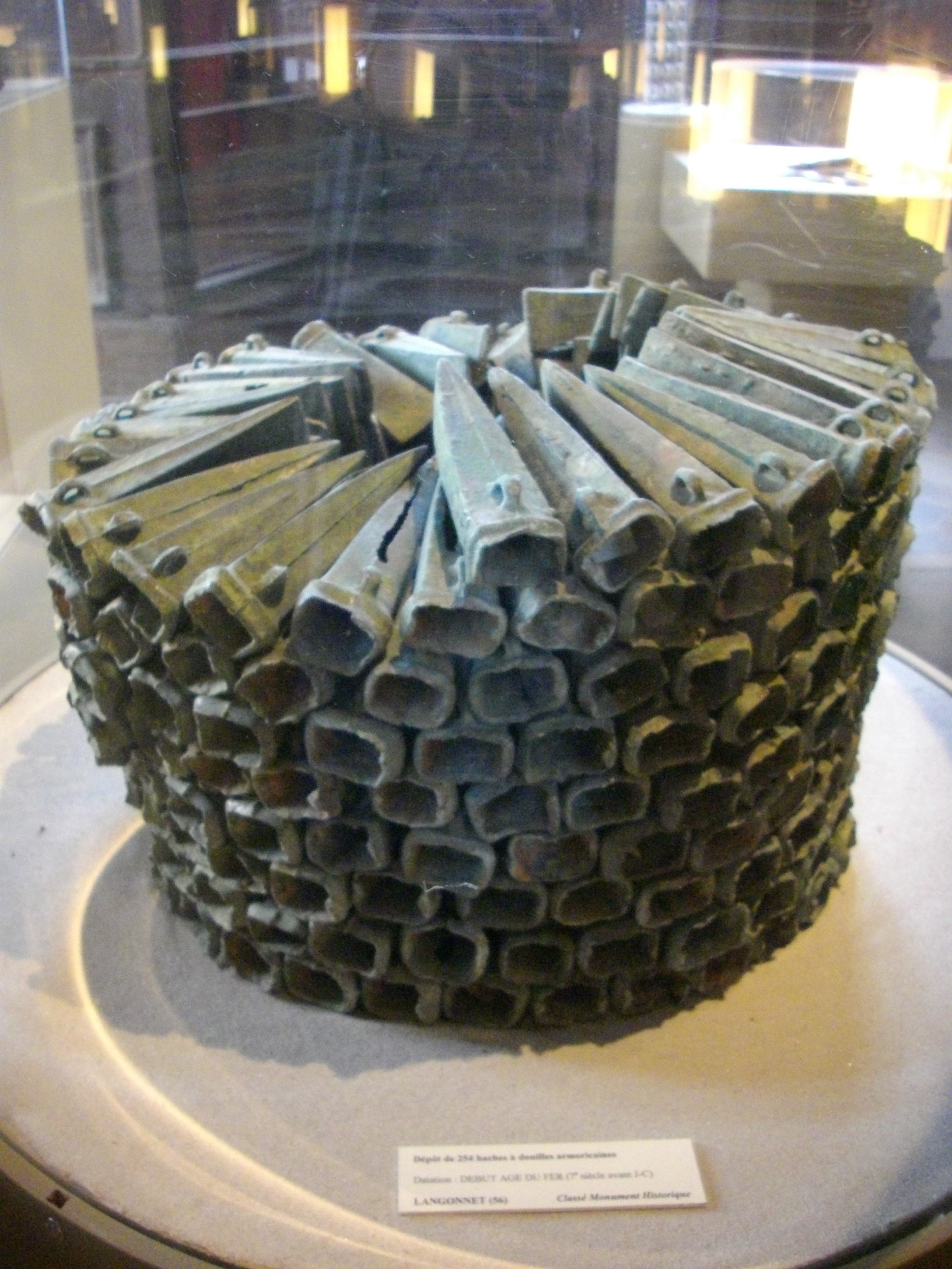 Socketed axes, Château-Gaillard museum, Vannes (Morbihan, France) Caption : Deposit of 254 armorican socketed axes Dated : early Iron age (2nd century BC) LANGONNET (56), classé Monument historique